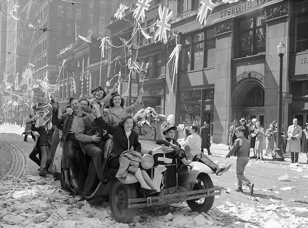 V-E Day celebrations on Bay Street, Toronto, Canada.